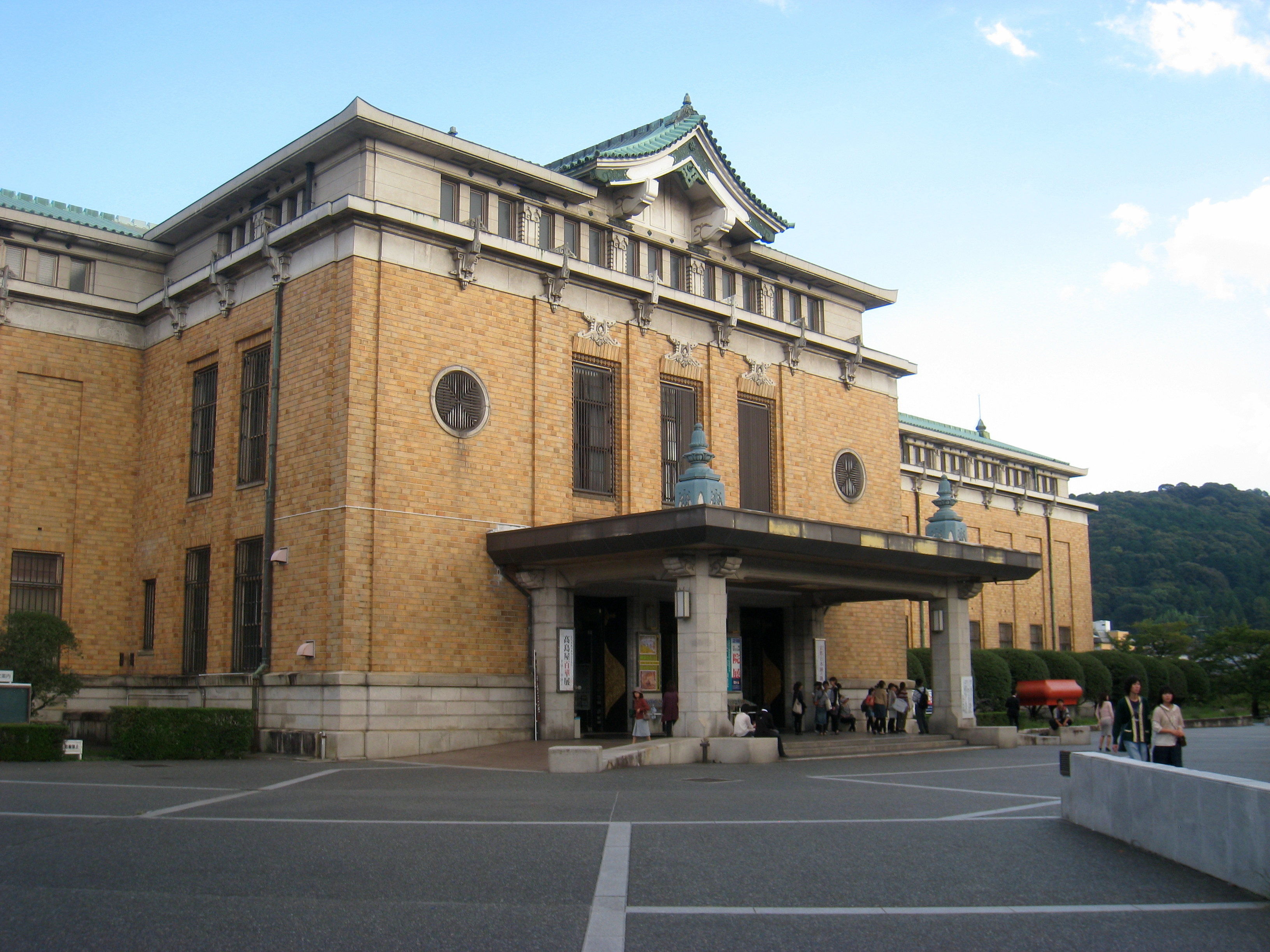 Kyoto Municipal Museum of Art in Kyoto, Japan.